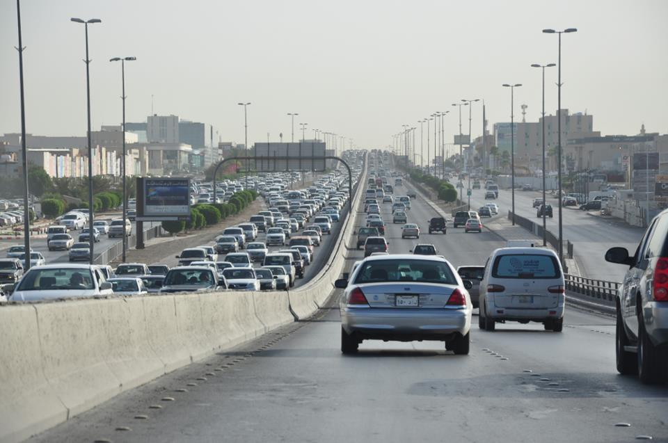 Qurais Road 2012